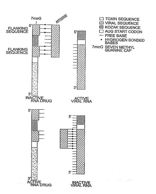 Drawing from US Patent 6,323,003 to Black